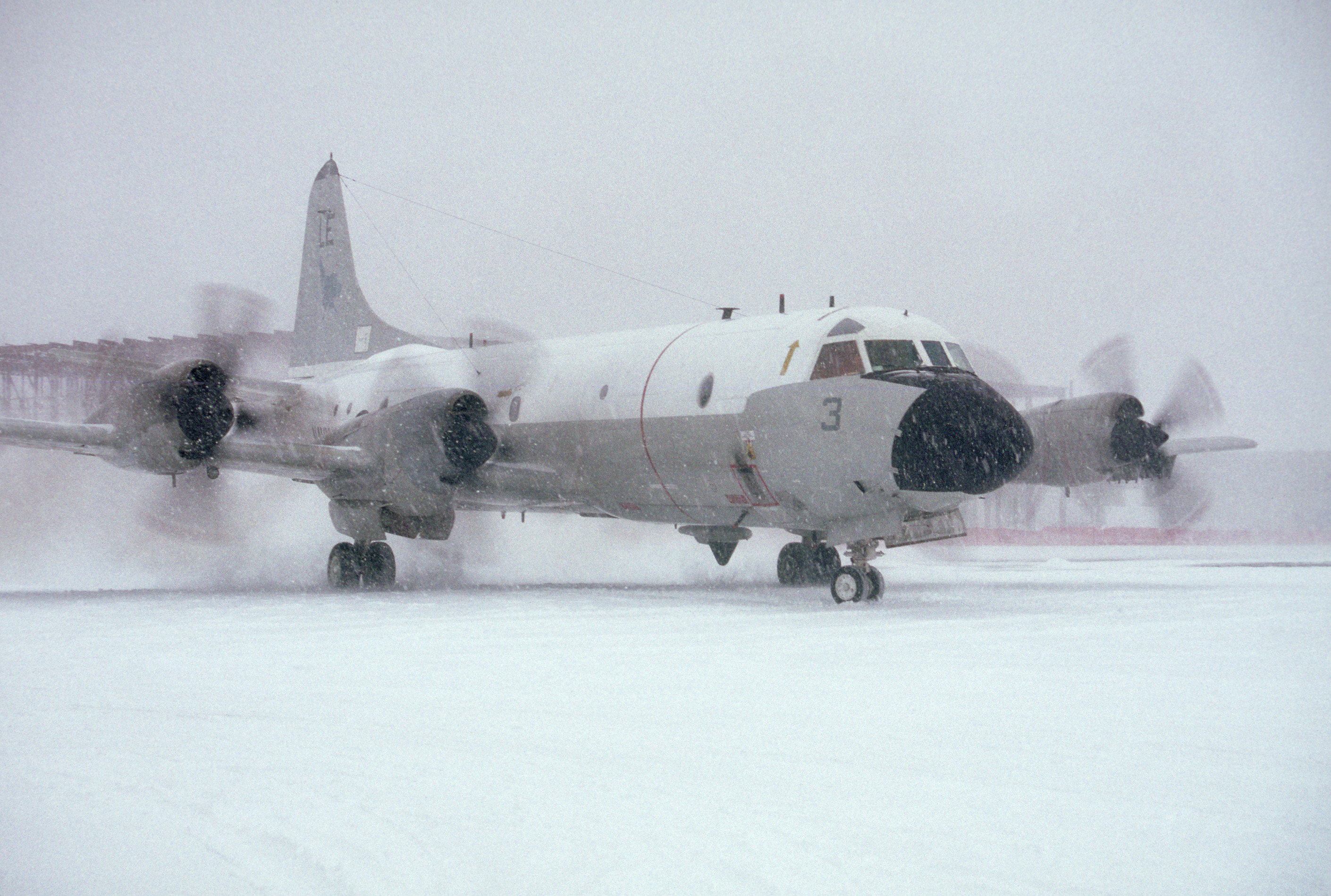 A U.S. Navy Lockheed P-3C Orion anti-submarine aircraft of Patrol Squadron 11 (VP-11) taxis into position for take-off during a New England snow storm at Naval Air Station Brunswick, Maine (USA) in 1991.